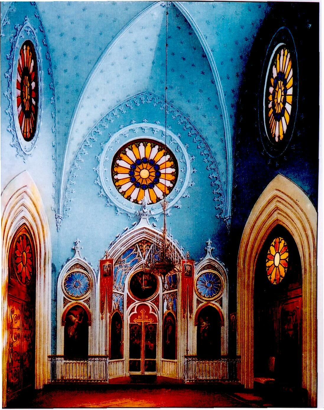 Peterhof (Russia)